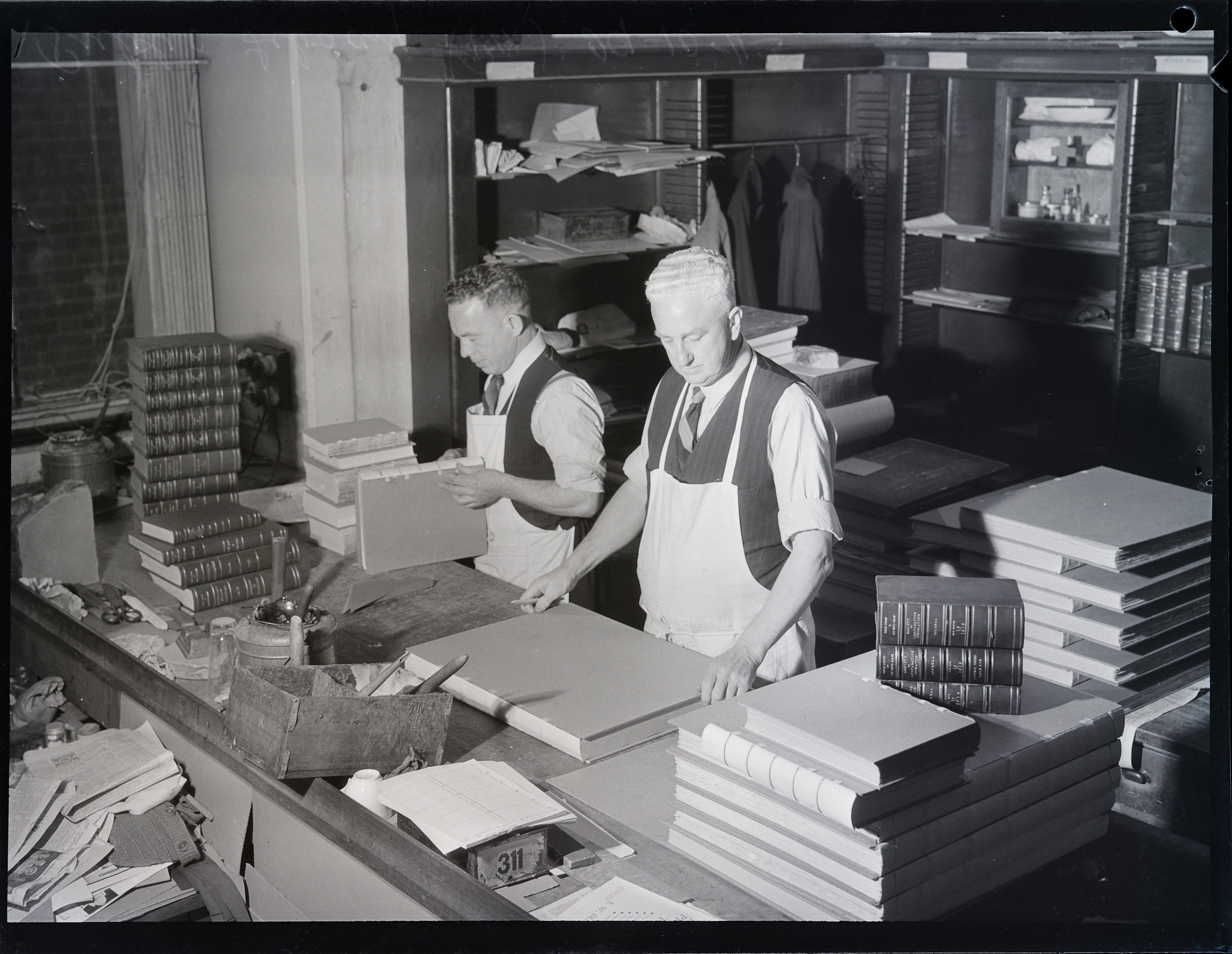 Book Conservators, Mitchell Building, State Library of New South Wales, 29.10.1943, Pix Magazine, part of the ACP Magazines Ltd. photographic archive, ON 388 / Box 006 / Item 091